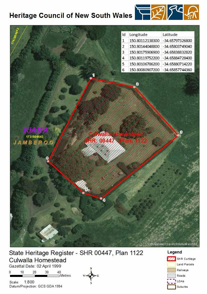 Culwalla Homestead: SHR Plan No 1122